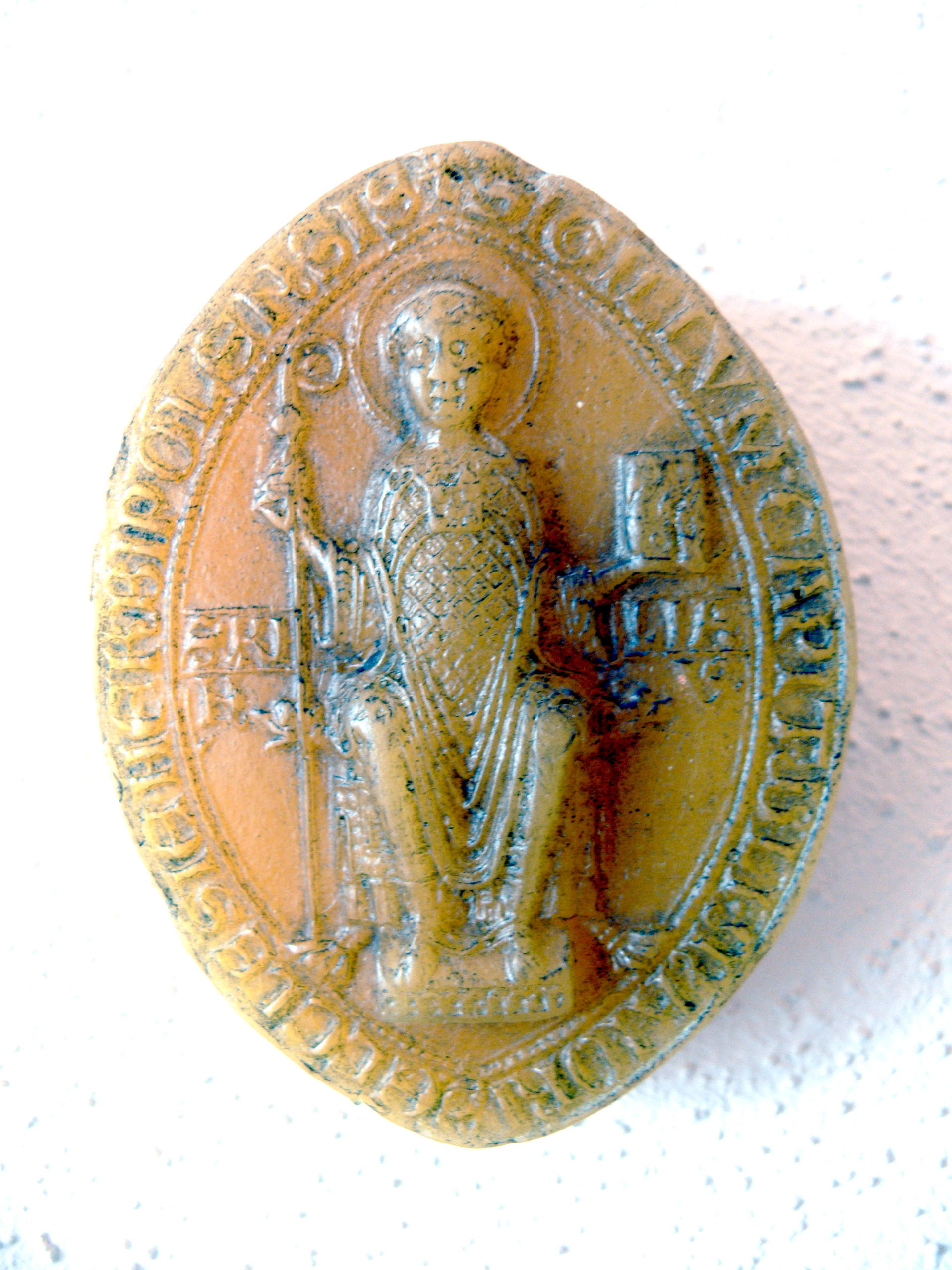 Seal of the cathedral´s chapter of Würzburg 1262